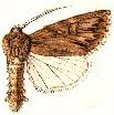 PLATE CXXVII.